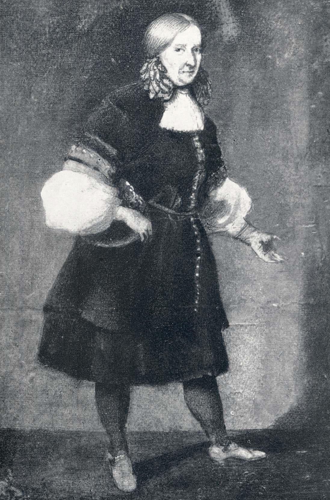 Ex-Queen Christina (1626) of Sweden